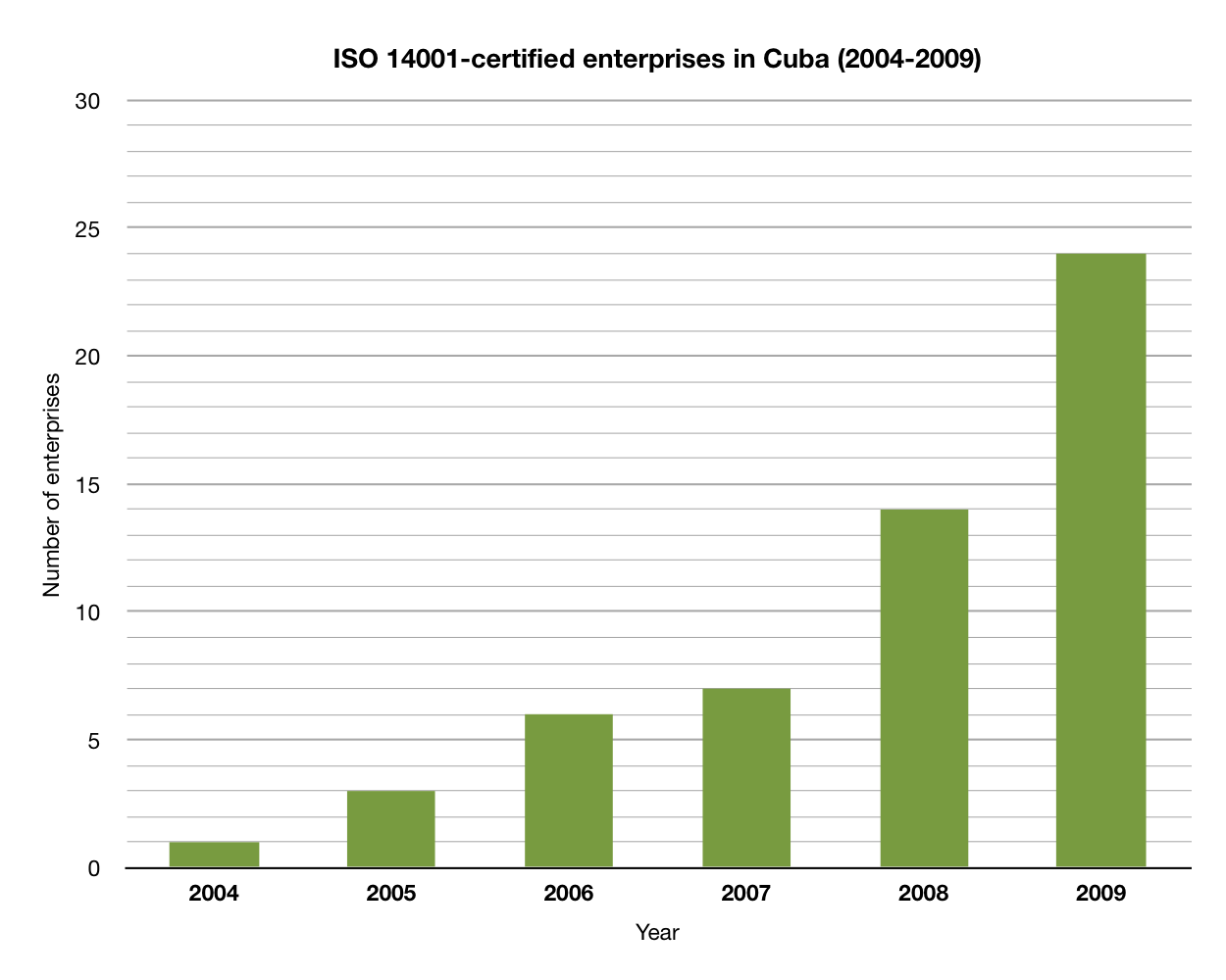 ISO 14001-certified enterprises in Cuba (2004-2009), according to CEPAL.